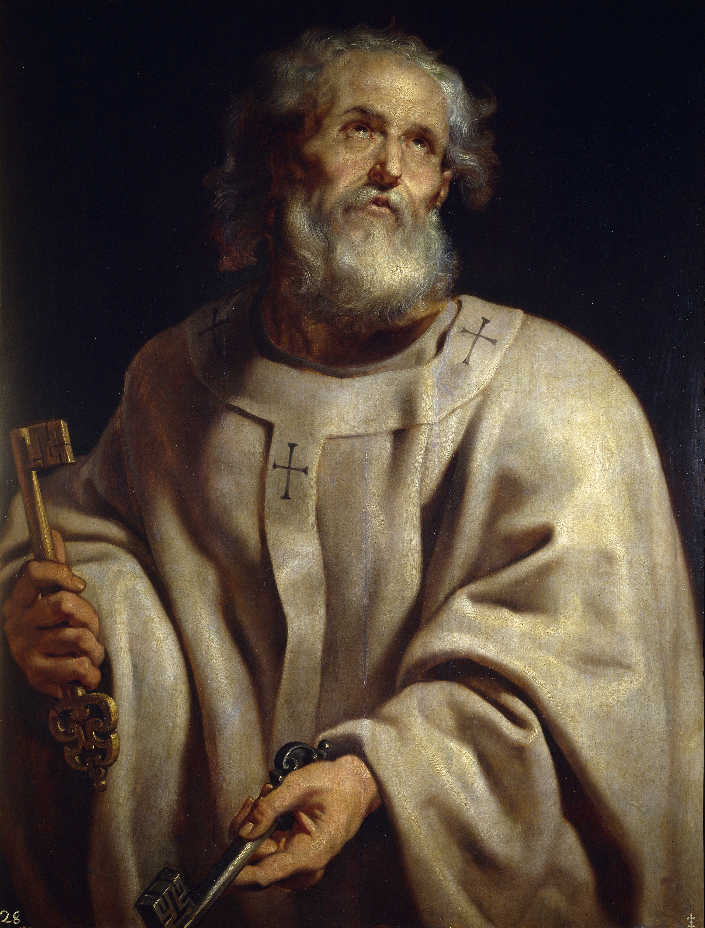 Saint Peter as Pope—here shown with the pallium and the Keys to Heaven